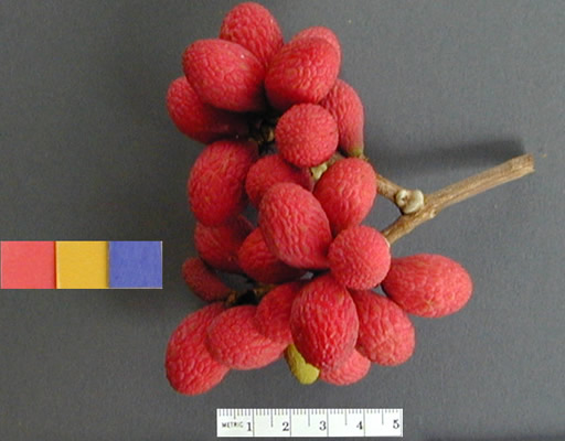 korlan fruit, HNEP 42, Nephelium hypoleucum, N91-50 US Pacific Basin Agricultural Research Center